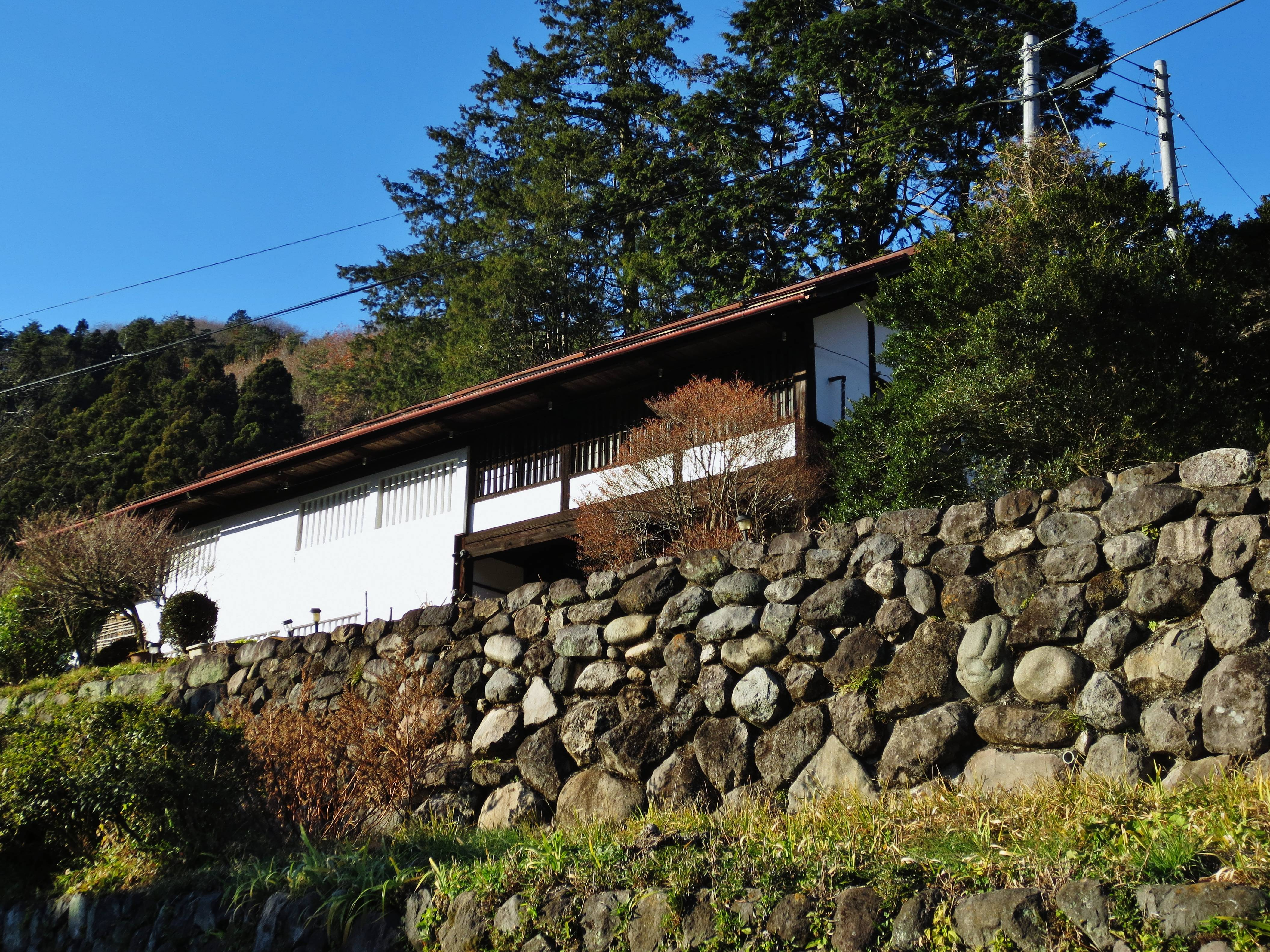 Mizunuma Silk Mill.